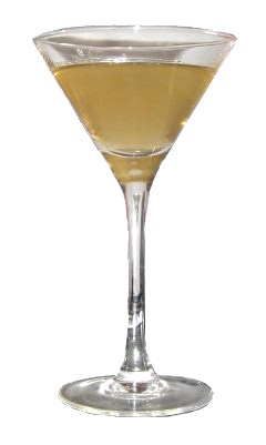 Bunny Hug cocktail with background removed. Equal amounts of Swiss verte absinthe, Scotch whisky, and distilled gin shaken with ice and strained into cocktail glass.